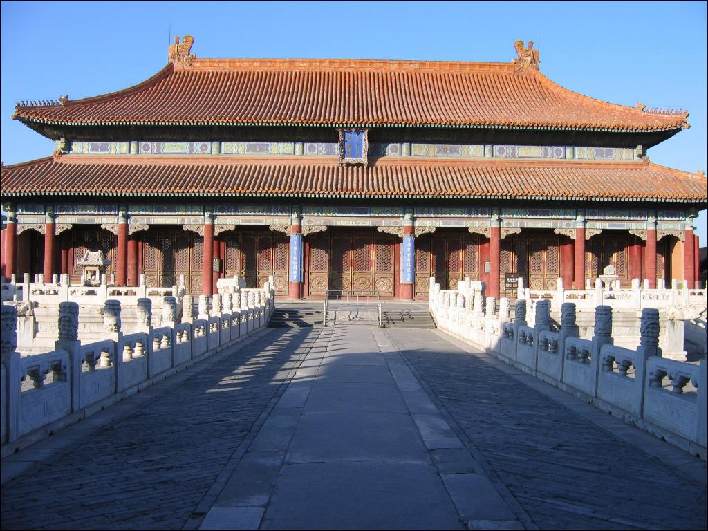 The Forbidden City in Beijing